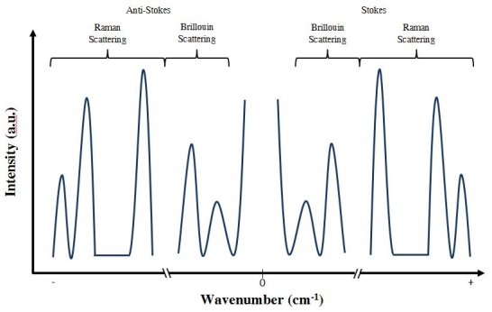 An illustrative plot of Raman and Brillouin spectroscopy data.